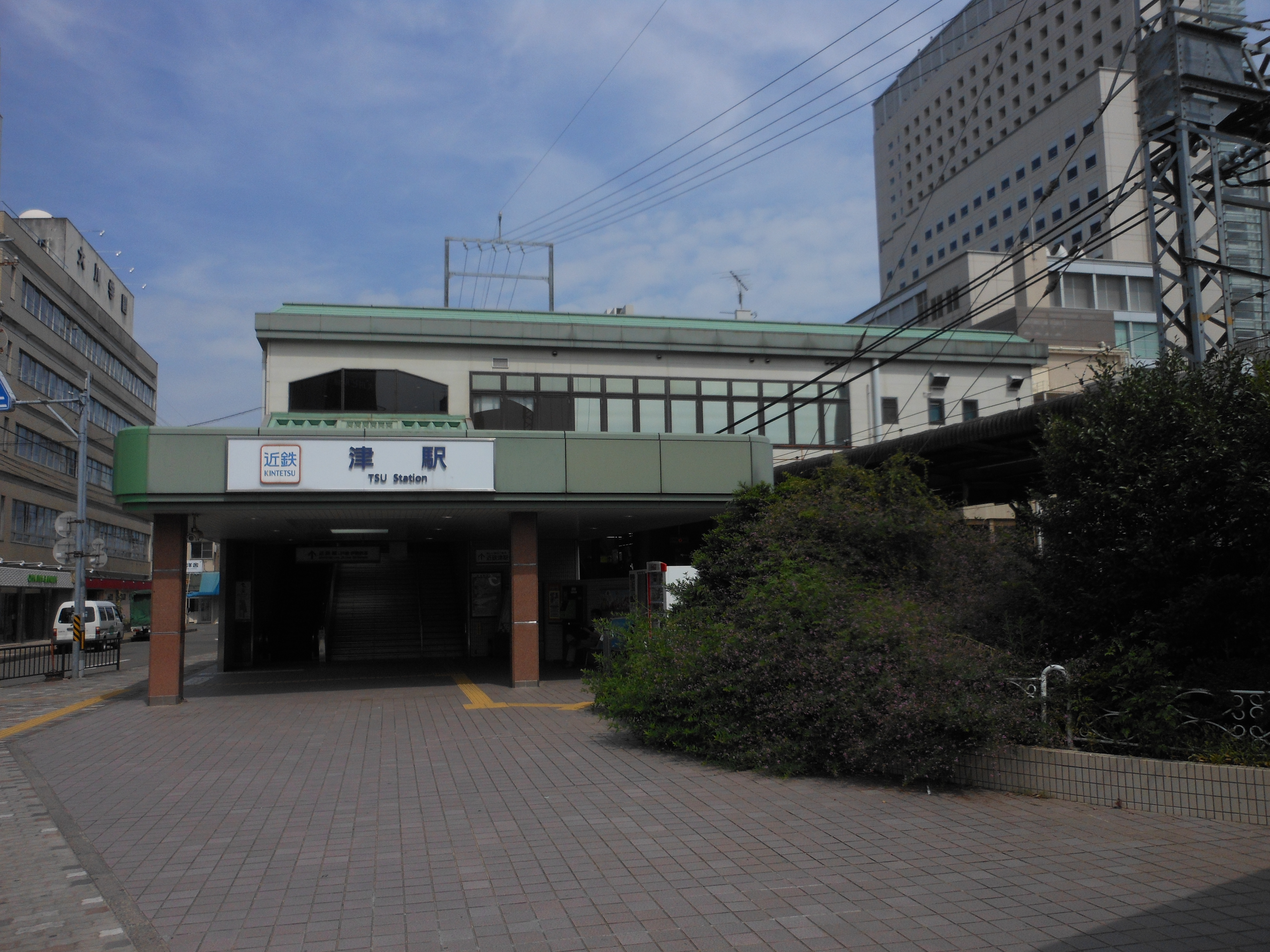 This is the West Exit of Tsu station in Tsu, Mie, Japan.